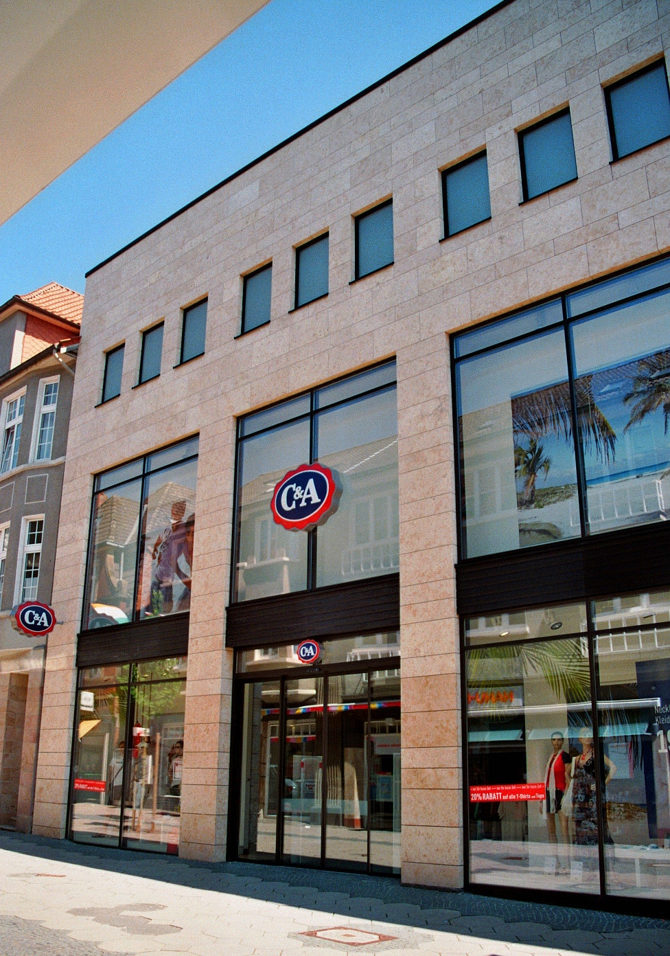 C&A shop in Ibbenbüren, Kreis Steinfurt, North Rhine-Westphalia, Germany.